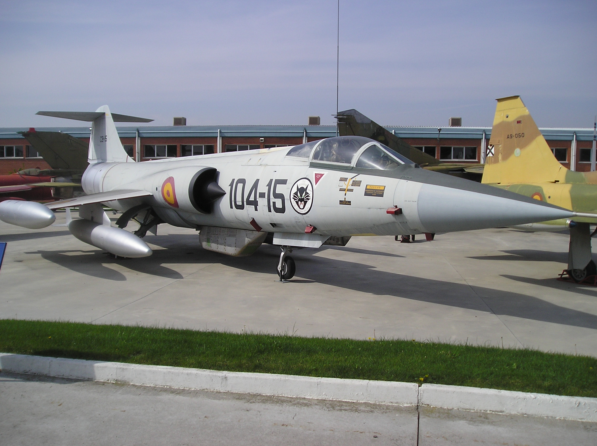 Fighter aircraft Lockheed F-104G Starfighter, from the JaboG 36 of the Luftwaffe (German Air Force). The starboard half plane keeps the decor of the unit C.8-15 / 104-15 when it served in the 12th Wing of the Spanish Air Force, based in Torrejón de Ardoz (Madrid). The real C.8-15 was sent to the Turkish Air Force after serving in the Spanish Air Force. Half port remains with German decor and the number 26 +23. Museum of the Air of Cuatro Vientos (Madrid, Spain).